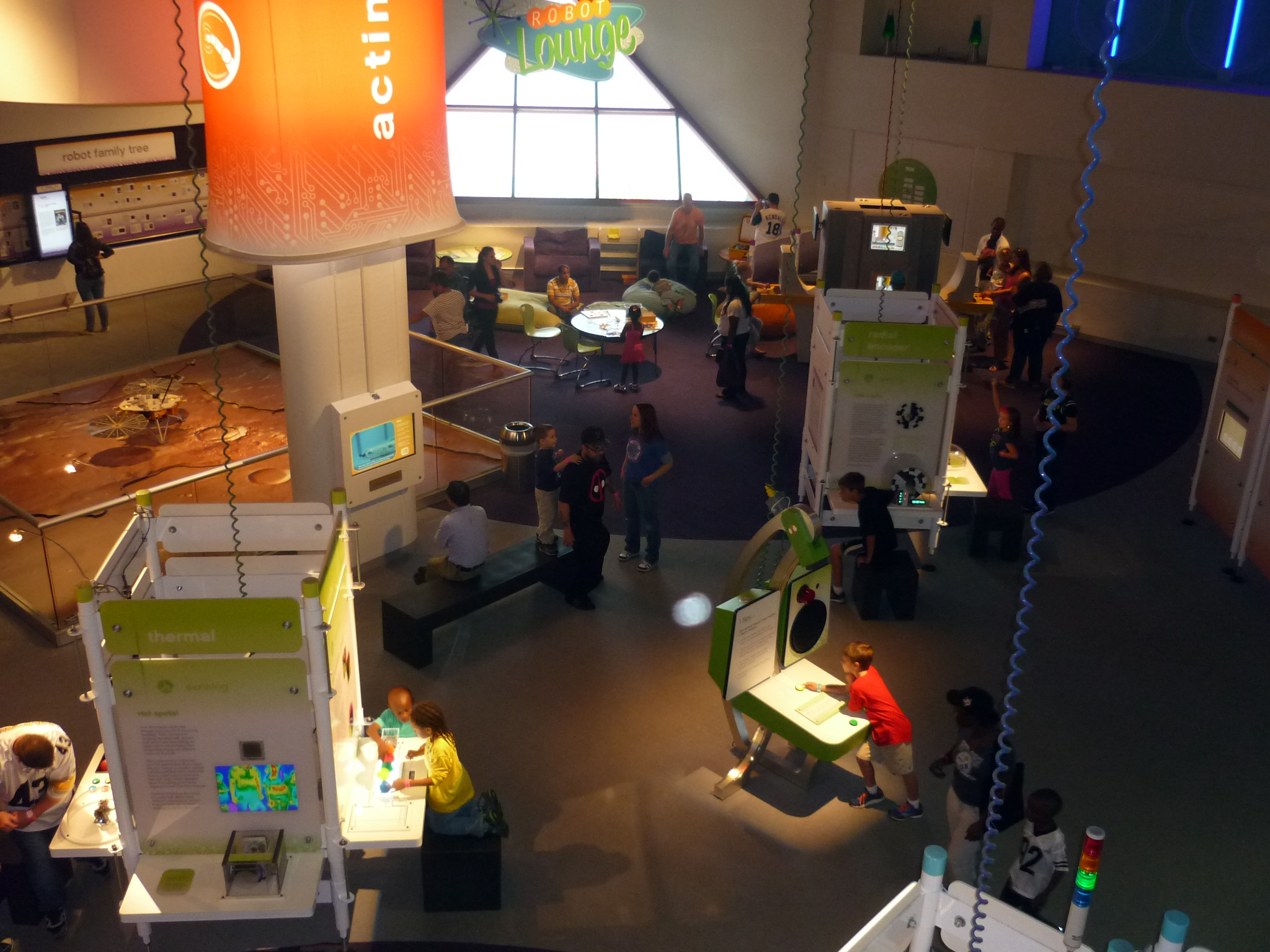 Roboworld at the Carnegie Science Center in Pittsburgh, PA.